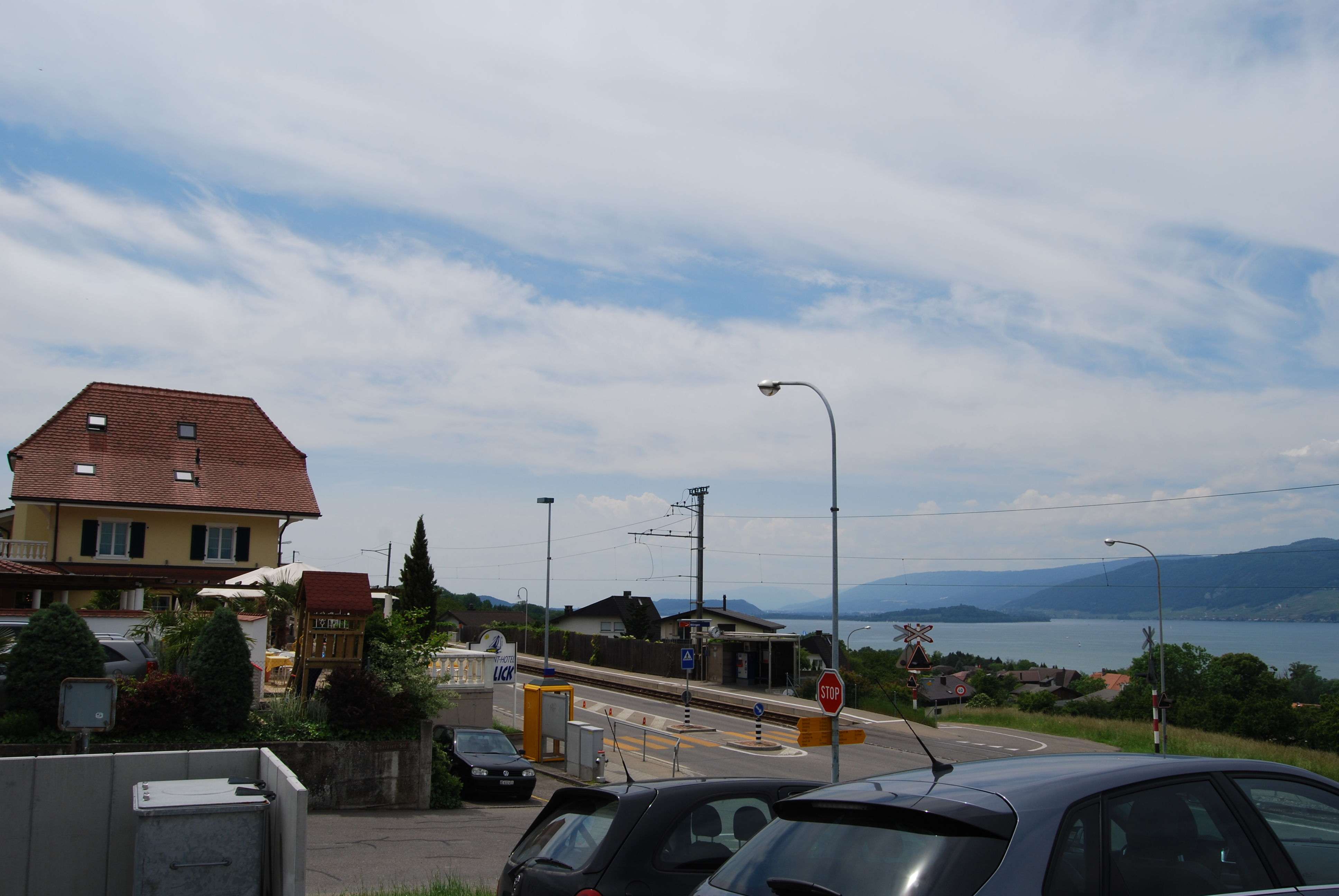 Mörigen, canton of Bern, SwitzerlandEsperanto: Mörigen, Kantono Berno, Svislando